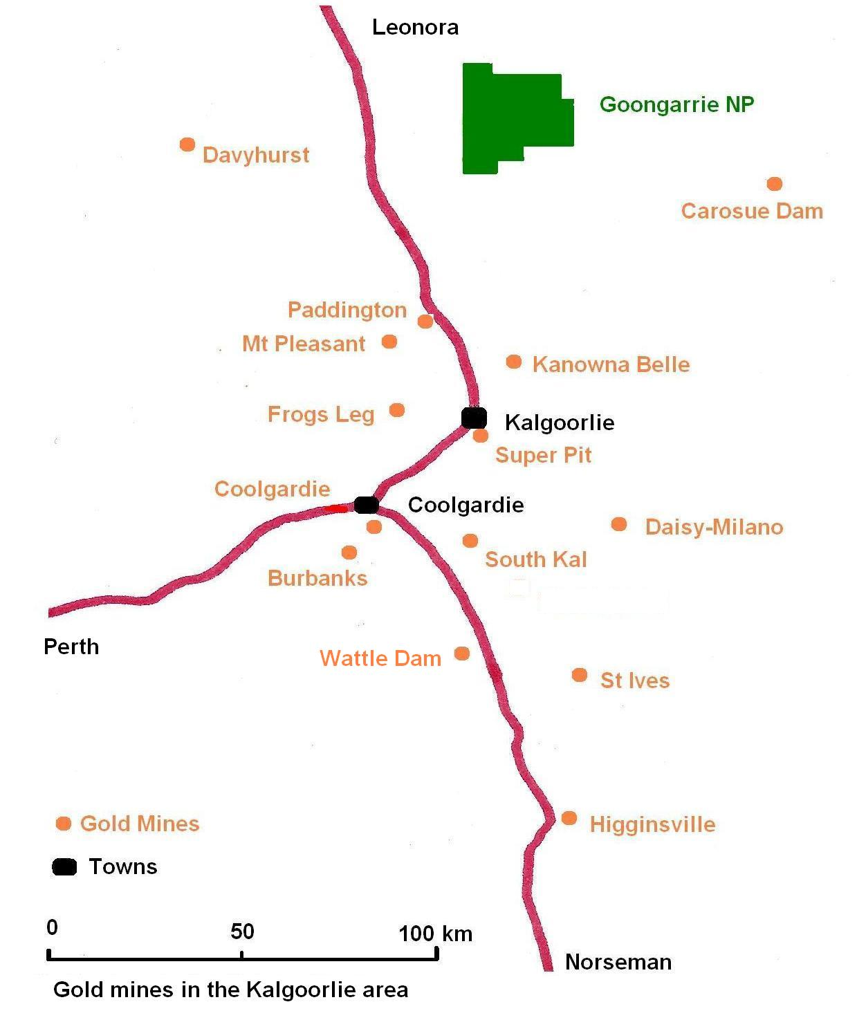 Map of gold mines in the Kalgoorlie region of Western Australia